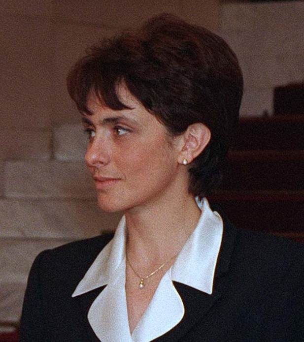 Foreign Minister Nadezhda Mihailova of Bulgaria during a visit by U.S. Defense Secretary William Cohen in Sofia.